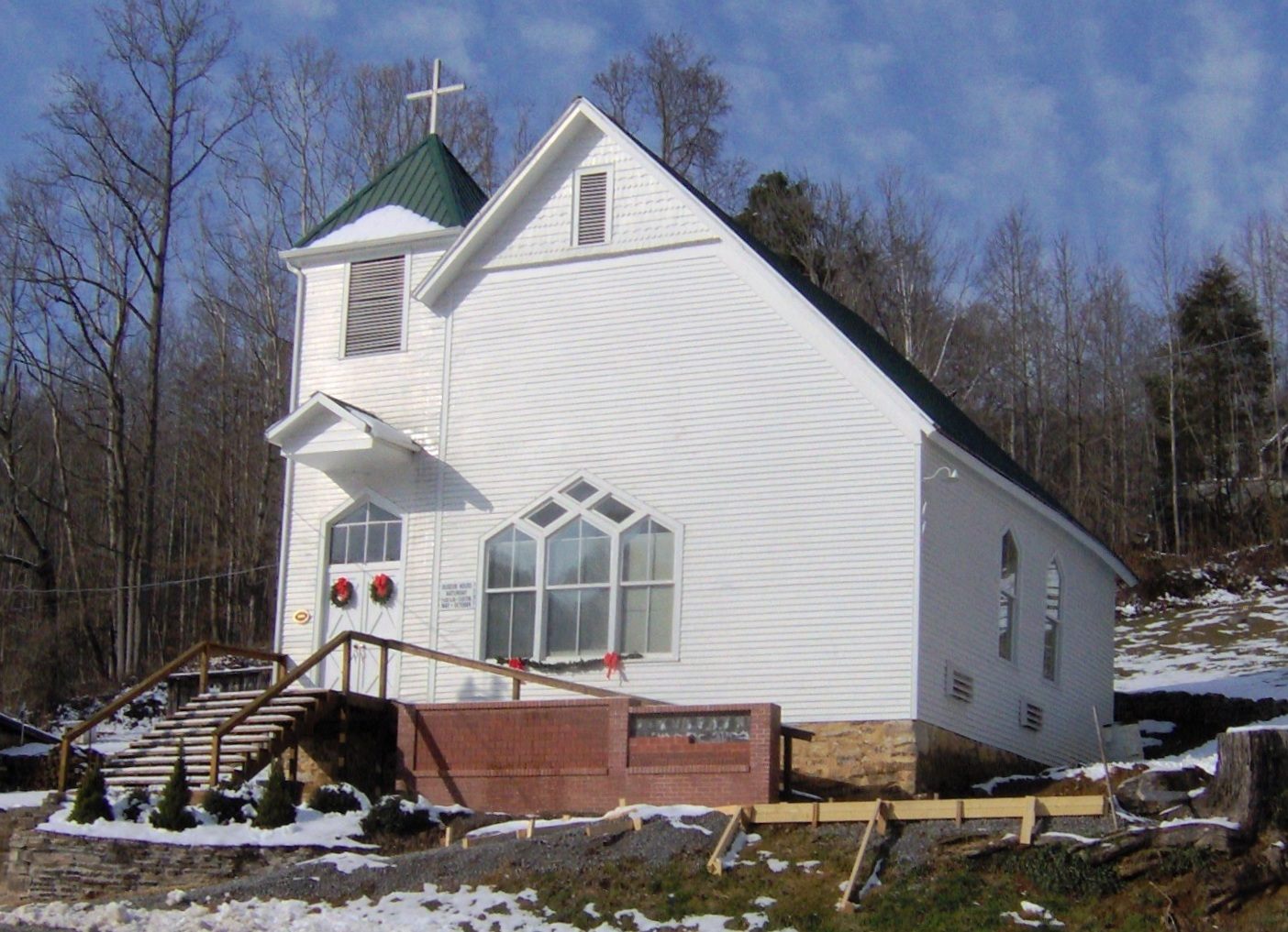 The front facade of the Vardy Presbyterian Church in the Vardy Blackwater community of Hancock County, Tennessee, USA. Special thanks to John Stansberry for helping me find this, and to local resident David Collins for showing us around.